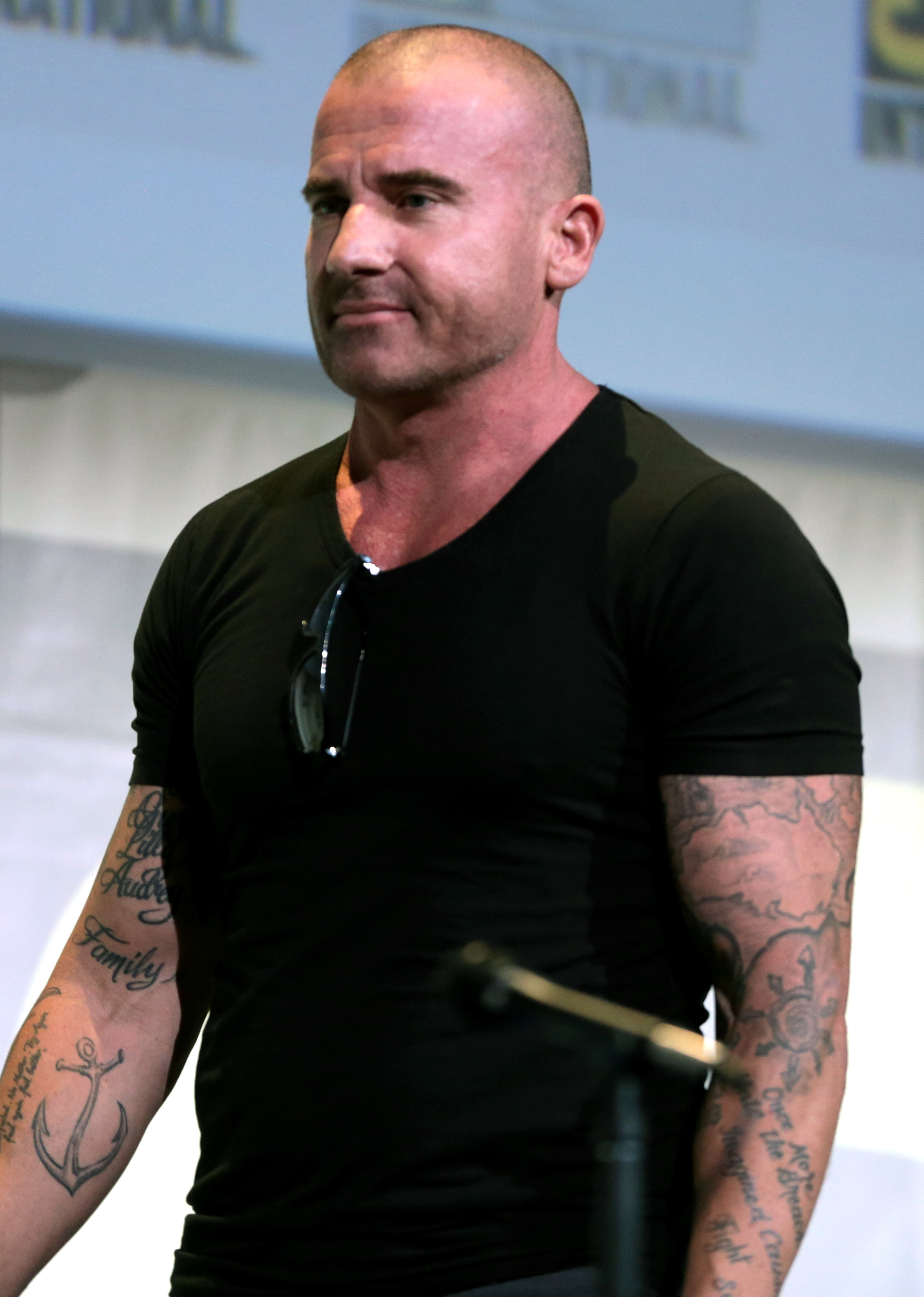 Dominic Purcell speaking at the 2016 San Diego Comic Con International, for "Prison Break", at the San Diego Convention Center in San Diego, California.